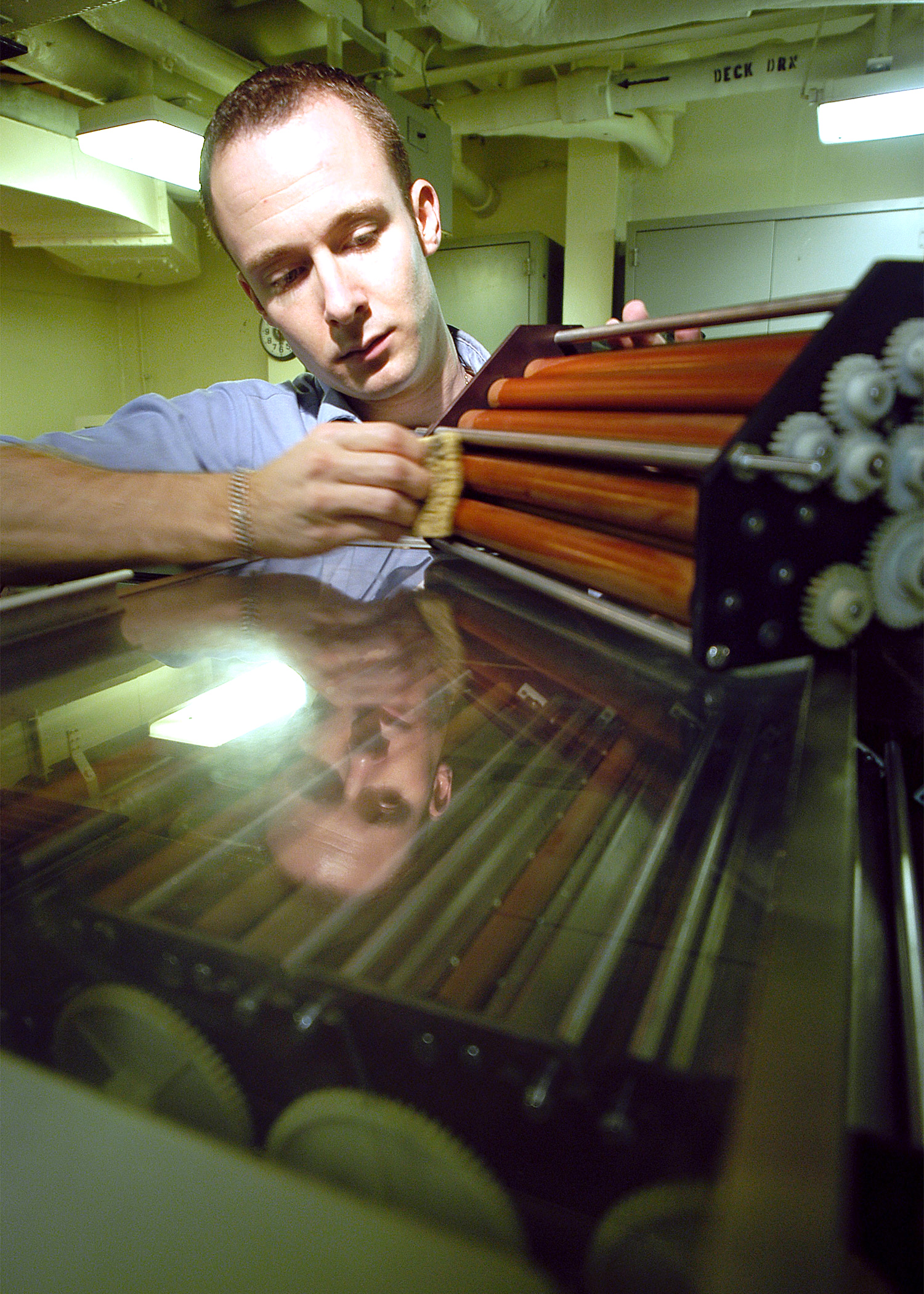 Arabian Gulf (July 4, 2004) – Photographer’s Mate 3rd Class Jason R. Zalasky, of Lake Hopatcong, N.J., cleans rollers on a Kodak EH-38D aerial film processing machine in the ship’s Photo Lab aboard USS George Washington (CVN 73). The Norfolk, Va. based Nimitz-class aircraft carrier and embarked Carrier Air Wing Seven (CVW-7) are on a scheduled deployment in support of Operation Iraqi Freedom (OIF), and is one of seven Carrier Strike Groups (CSGs) deployed under the Navy's new Fleet Response Plan (FRP), Summer Pulse 2004. U.S. Navy photo by Photographer’s Mate Airman Robert Brooks (RELEASED) For more information go to